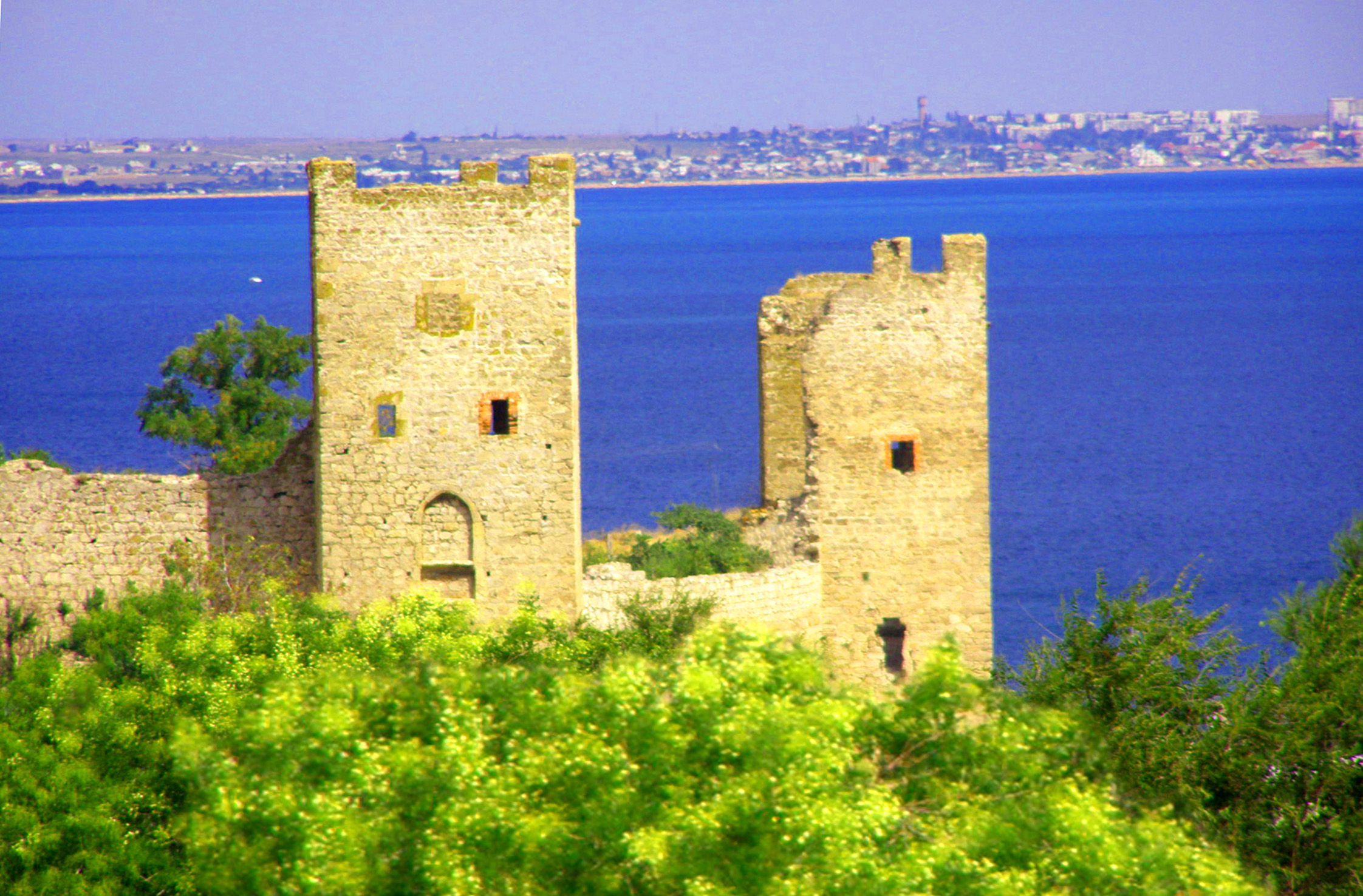 Genoese fortress in Theodosia (Feodosia, Crimea)